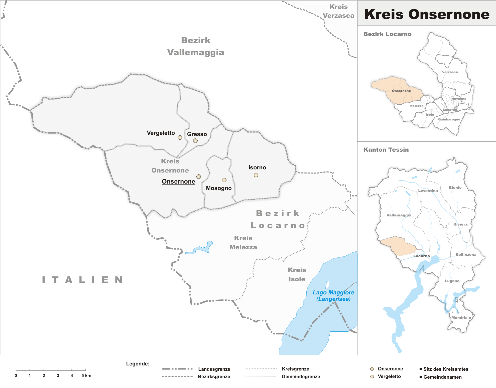 Municipalities in the circle of Onsernone